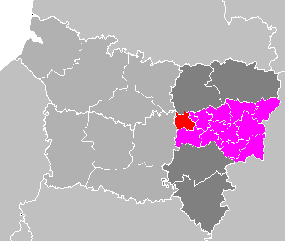 Maps of arrondissements and cantons of France: Arrondissement de Laon